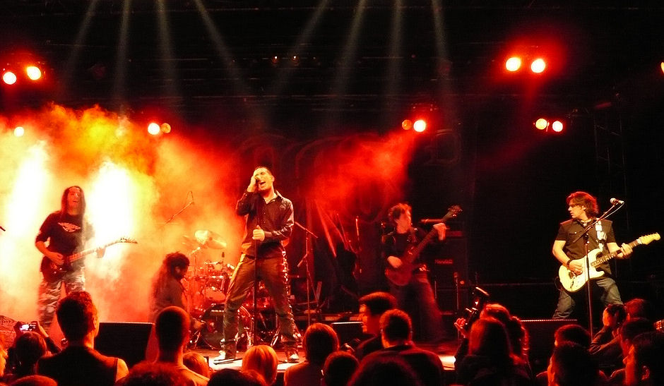 The French power metal band Heavenly playing live at the Elysée Montmartre (Paris) on 10 November 2008